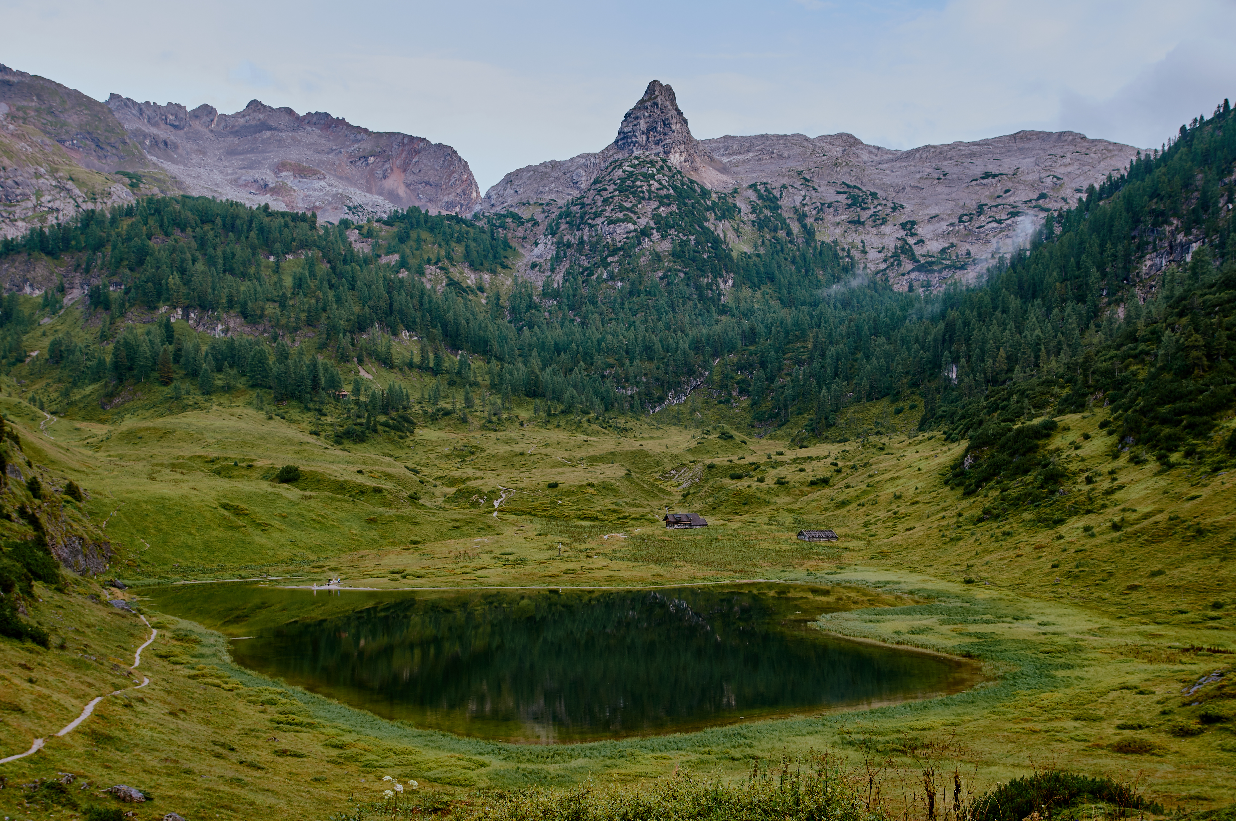 Funtensee, Bavarian Alps, Germany.